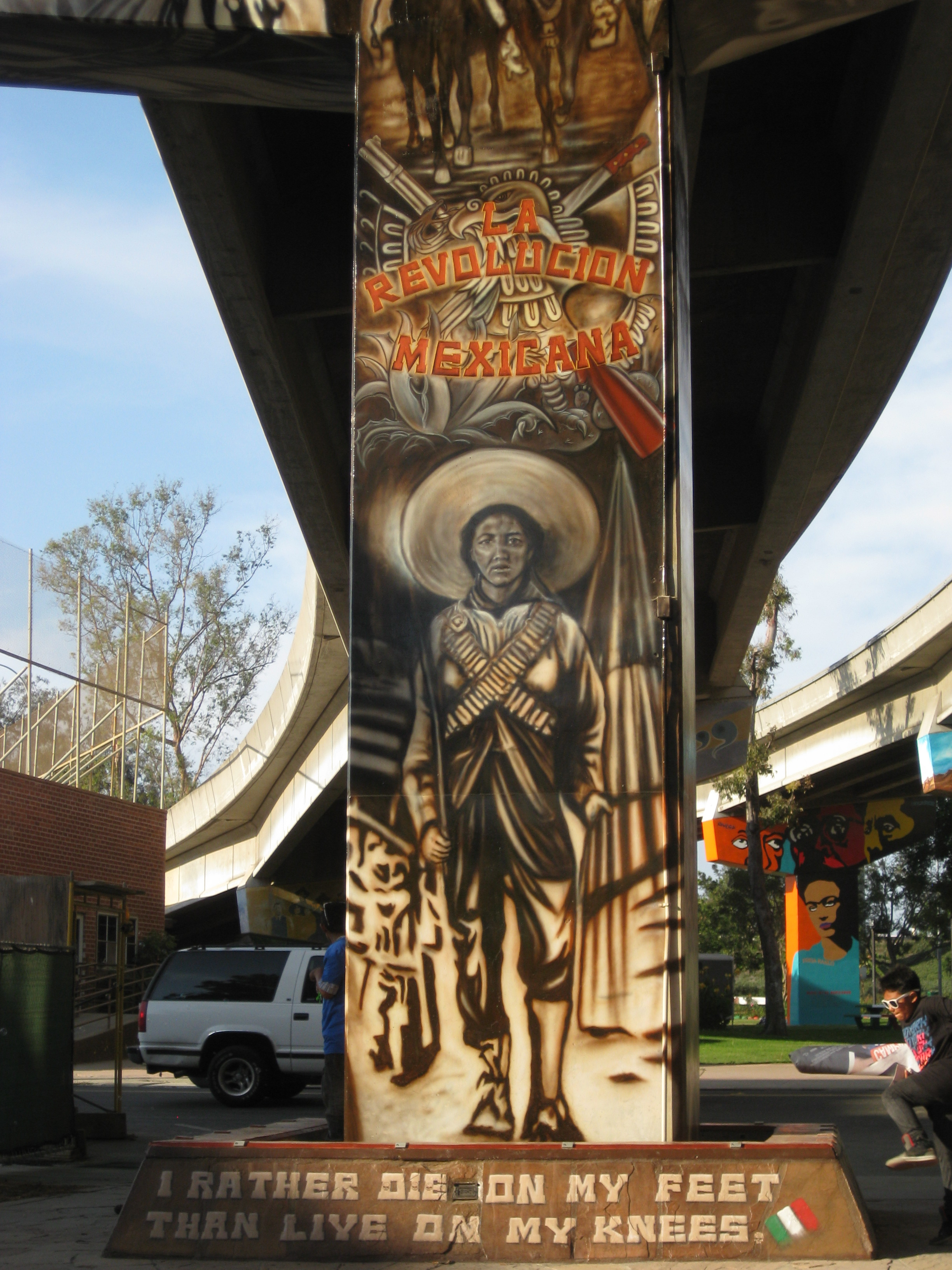 Image of Emiliano Zapata with English translation of famous quote “Es mejor morir de pie que vivir de rodillas.”